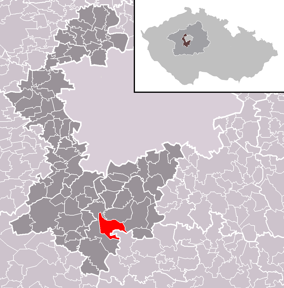 Location of Hradištko municipality within Prague-West District and administrative area of Černošice as a Municipality with Extended Competence.